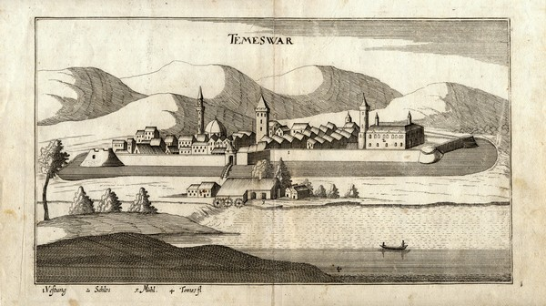 Copper-plate engraving of the city of Timisoara (Temeswar), printed by Wagner in his Delineatio Provinciae Pannoniae, in Augsburg in 1685. It shows the city under Ottoman occupation. In fact, the drawing is an (incorrect) assumption that under Ottomans the Angevin fortress has remained the same, and the hills are fiction. The fortress has a rectangular form, with two parts (left and right in this picture). This structure was built by Charles the 1st of Hungary in the 14th century. After liberating the city from the Turks, the Austrians would rebuild the city fortress in a star-shaped form with strong bastions. With the new fortress, the city would never be conquered again.